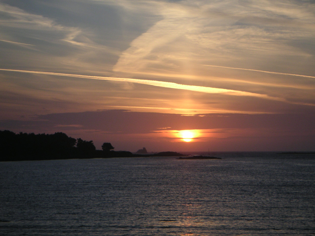 Sunset near Peumeur-Bodou (22), France.